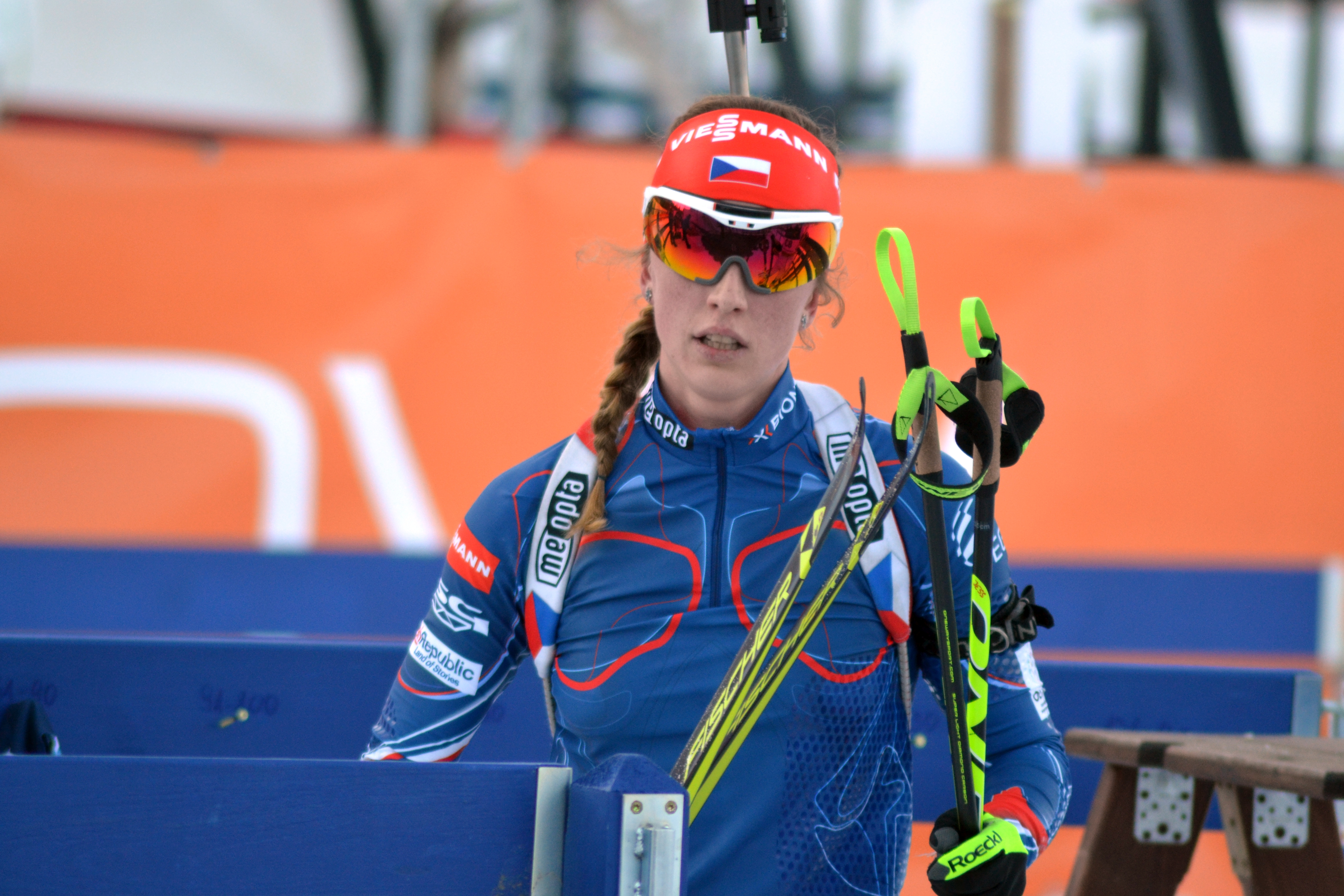 Open European Championships Biathlon 2017, Sprint Women's race, held on January 27th.